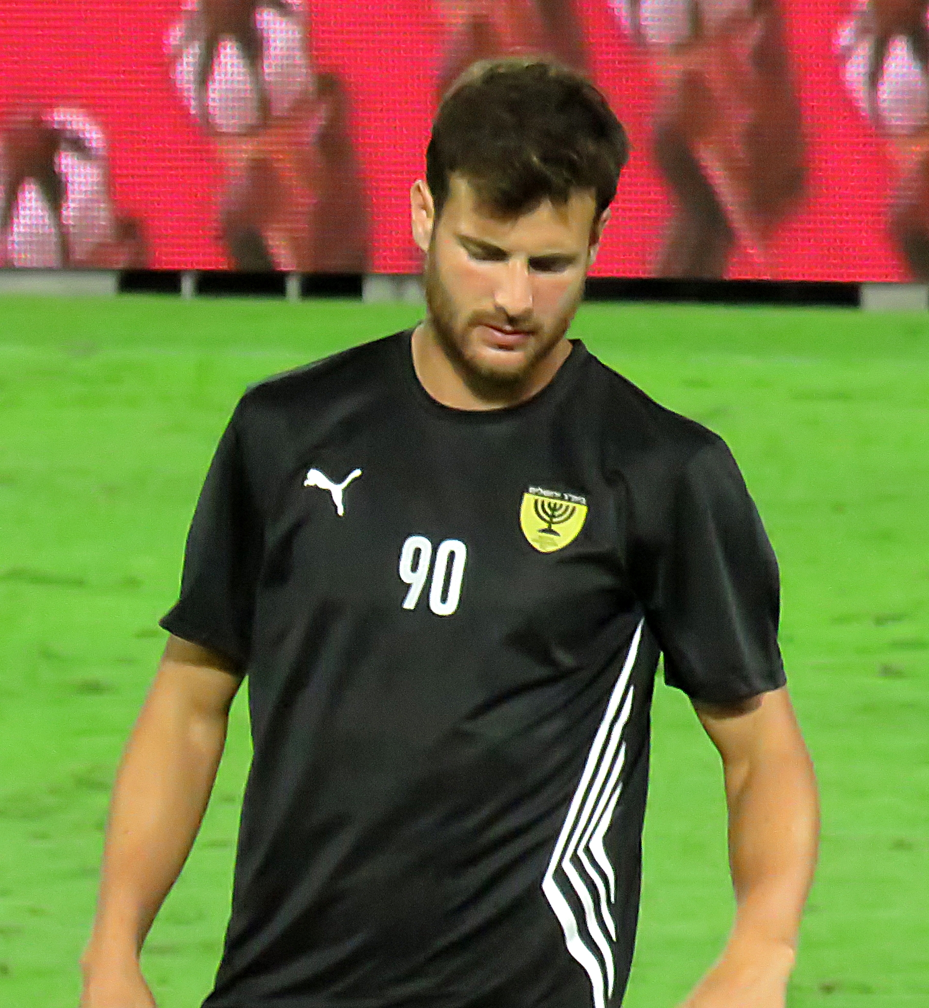 Bnei Yehuda Tel Aviv vs. Beitar Jerusalem - 19 September, 2015